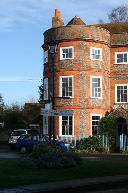 Corner of the Round House, 13 Castle Square, Benson, Oxfordshire